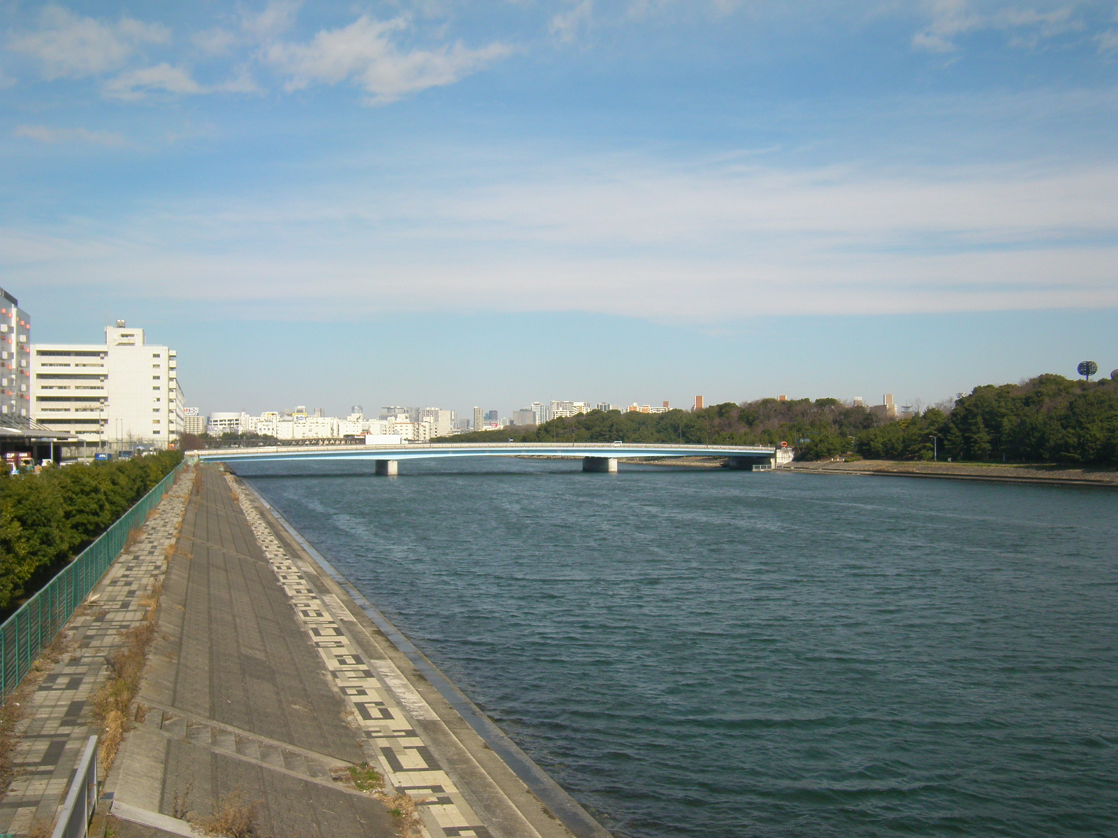 Keihin Cannal and Shin-Heiwa Bridge. Ōta ward, Tokyo, Japan. Northward from Yamato Grand Bridge (Yamato Ōhashi).